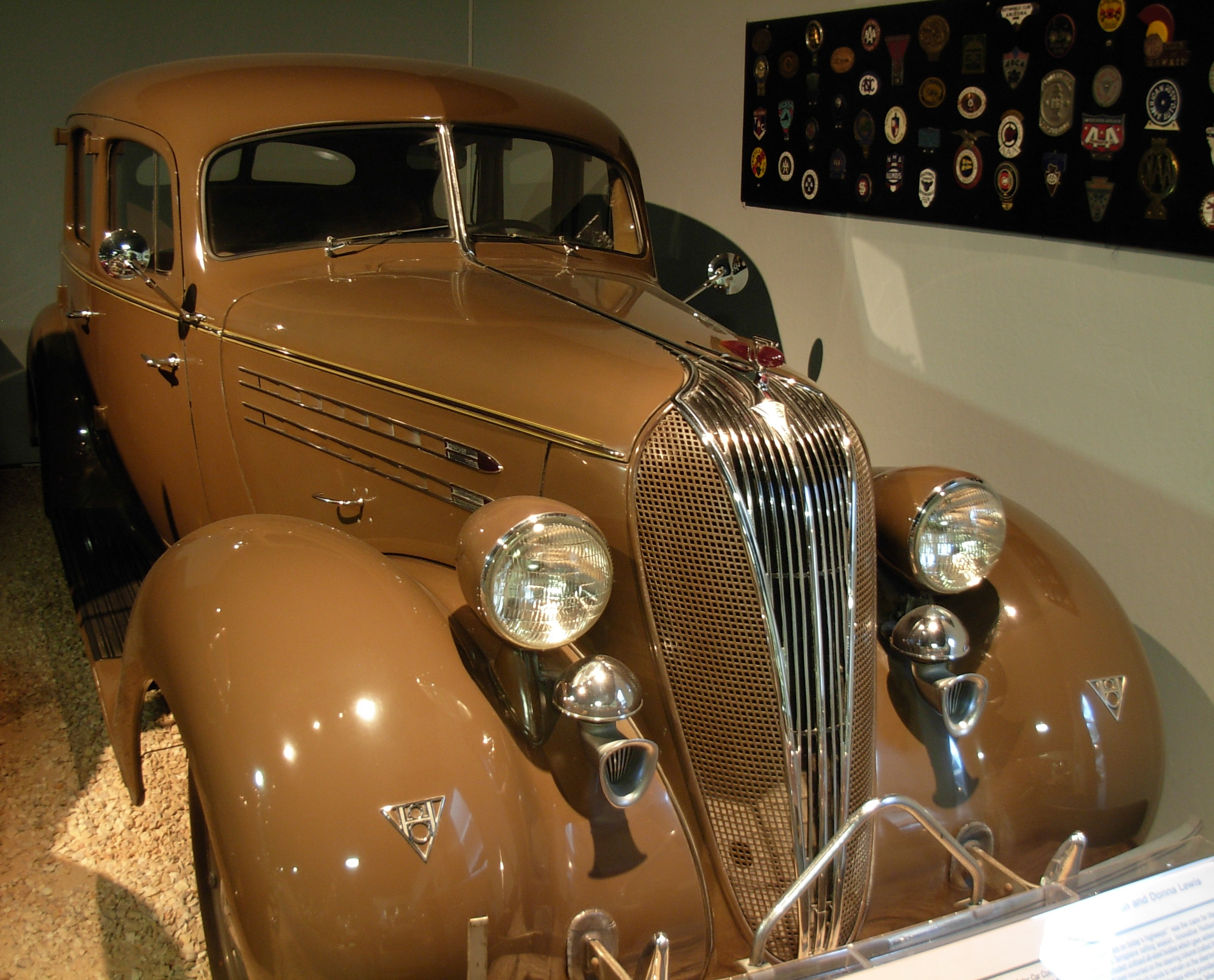 1936 Hudson Model 64 De Luxe Eight Sedan Hudson Motor Car Co. Detroit, Michigan Price $830 Engine L-Head 8 Cylinder 113 HP Bore 3" Stroke 4.5" Displacement 254.5 Cubic Inches Donated by Brian and Donna Lewis The Depression took its toll on the Hudson Motor Compmpany as sales decreased dramitically during the early 1930's. When Hudson introduced the Terraplane model in 1934, profitability slowly began to return as production reached 85,835 cars, more than twice the 1933 total. By 1935, over 100,000 cars were built. Many police departments and taxicanb companies purchased Hudson-built automobiles during the mid-1930s. "The safest car on the highways" was the claim for the 1936 Hudson and Terraplane selling session. Innovative Hudson safety features included unitized all-steel bodies which gave added strength, a gear shift lever mounted on the steering coluum (called the 'Electric Hand'] that allowed both hands to remain on the wheel when shifting, and "Duo-Automatic" brakes which provided a mechanical linkage backup in case the hydraulic brakes failed. 1936 Hudson-Terraplane production of 123,266 automobiles reflected a successful year for the Hudson Motor Car Company. (From National Car Museum description) i091607 398 National Automobile Museum, Lake St, Reno, Nevada, USA.